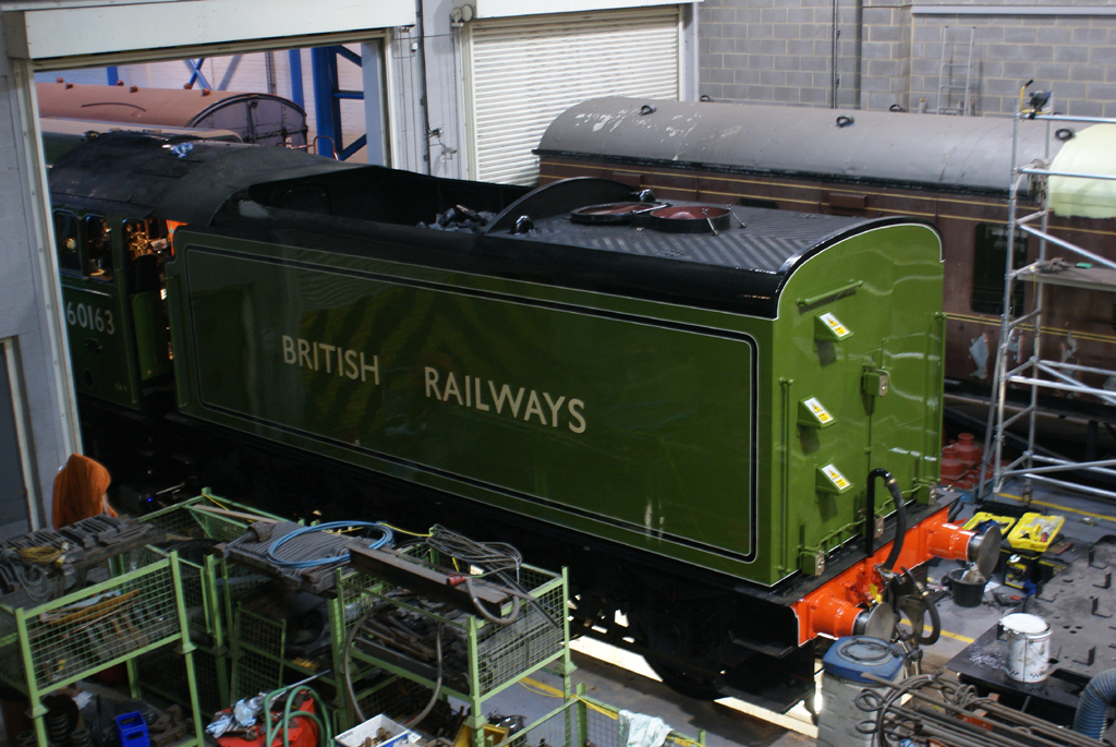 60163 Tornado's tender at the National Railway Museum, York, England.